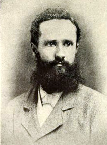 Daniel Spofford, student of Mary Baker Eddy; see Christian Science